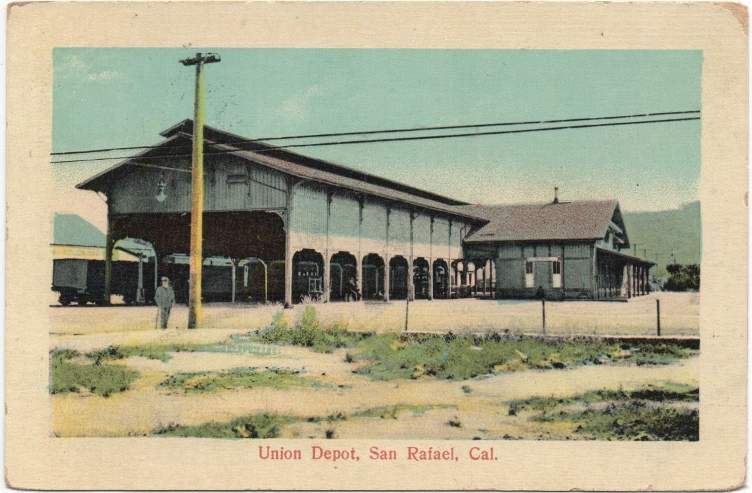 Early divided back postcard of San Rafael station, postmarked 1911